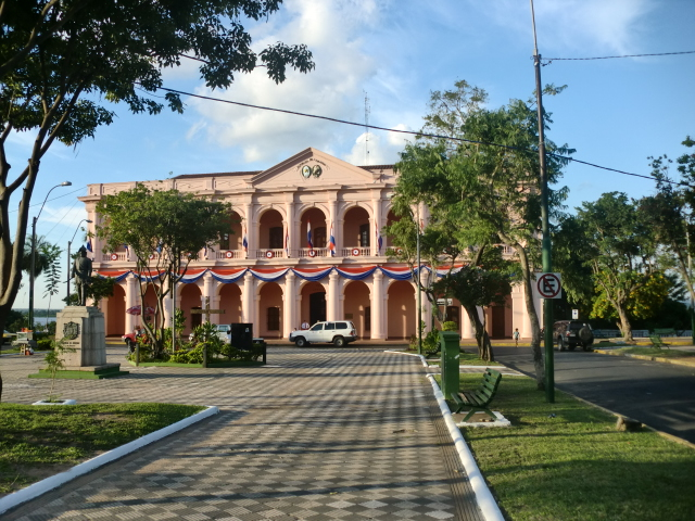 Cabildo